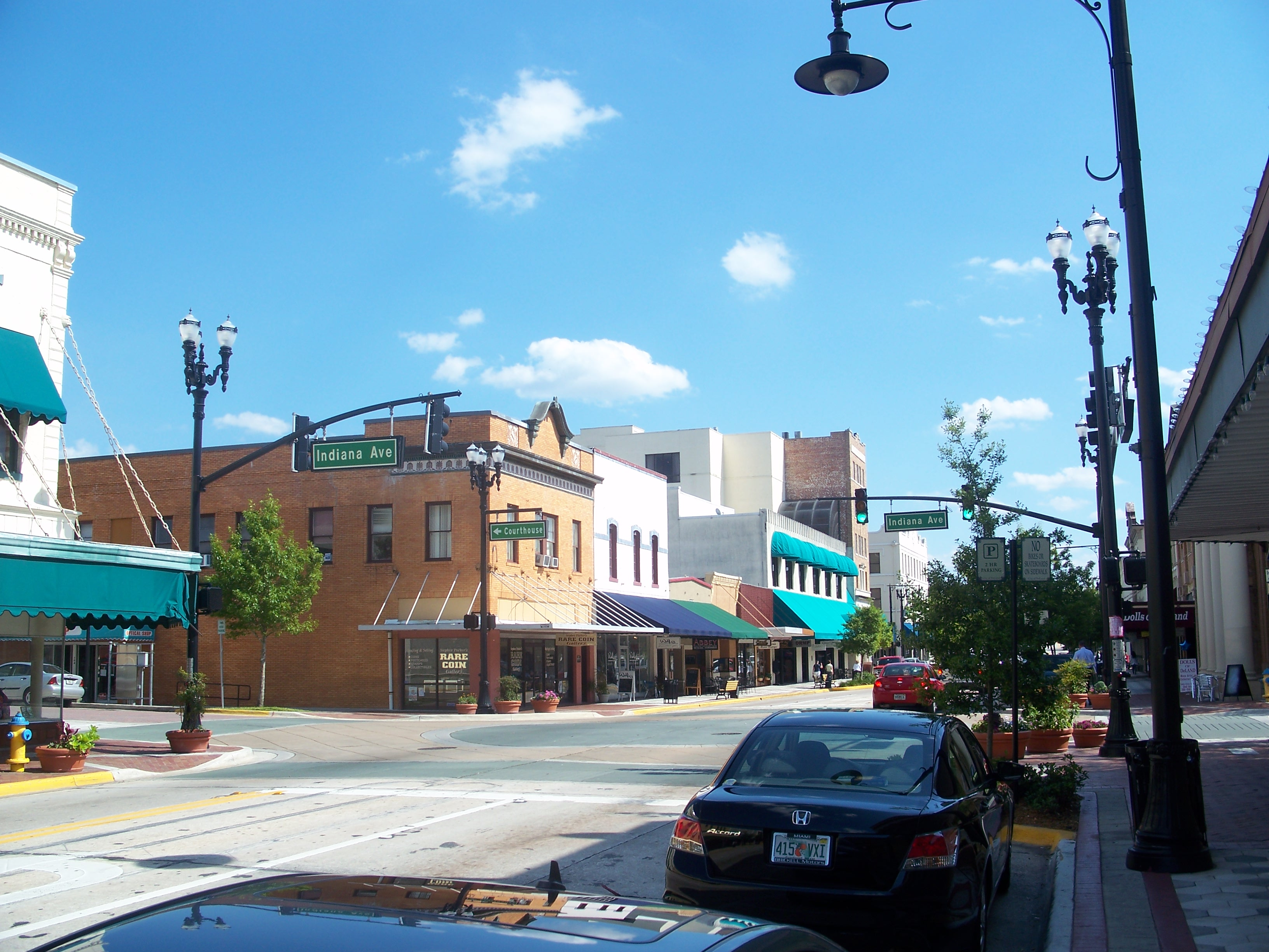 Deland, Florida: Downtown DeLand Historic District: Looking south along US 17/92